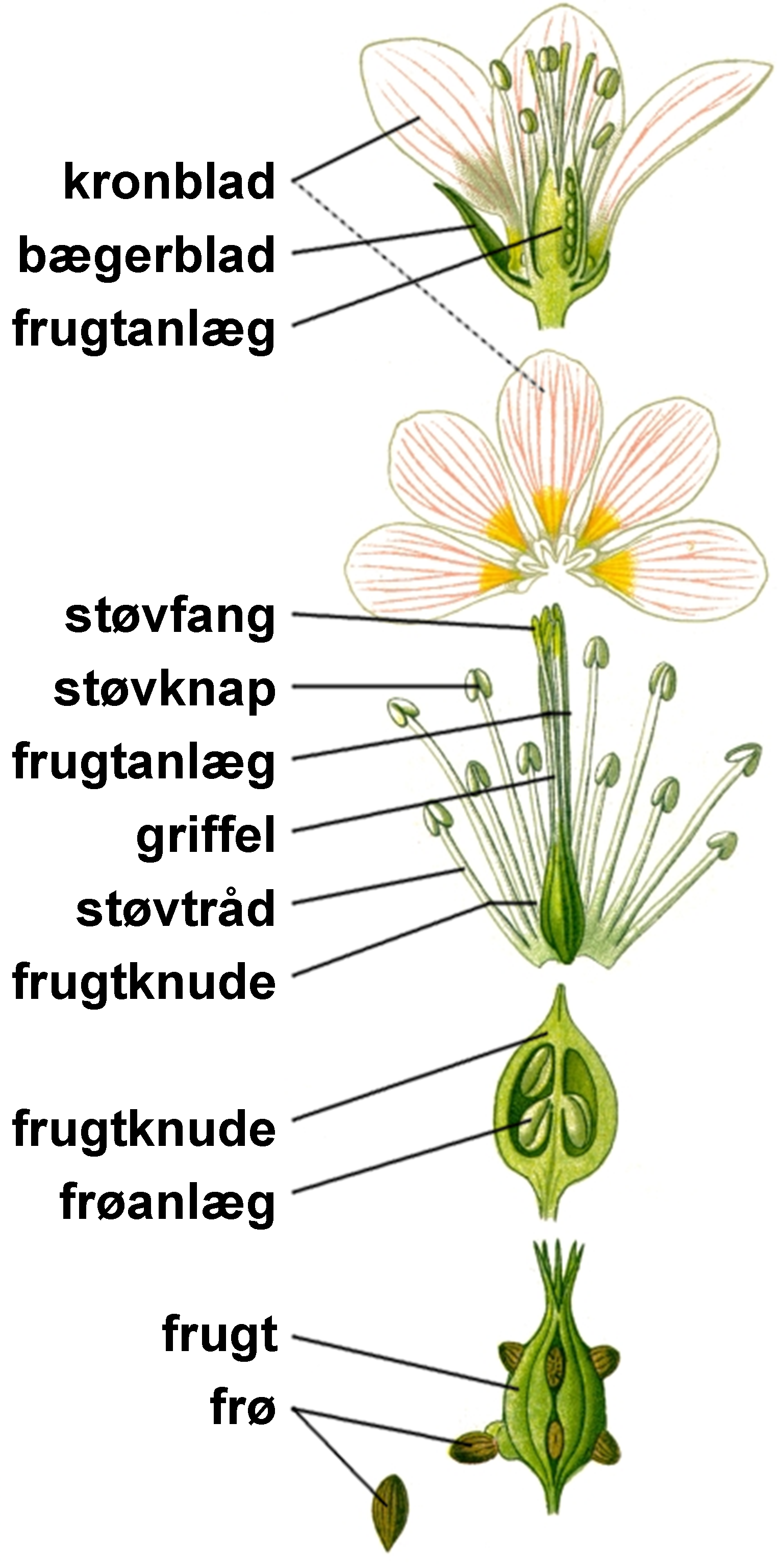 Parts of a flower